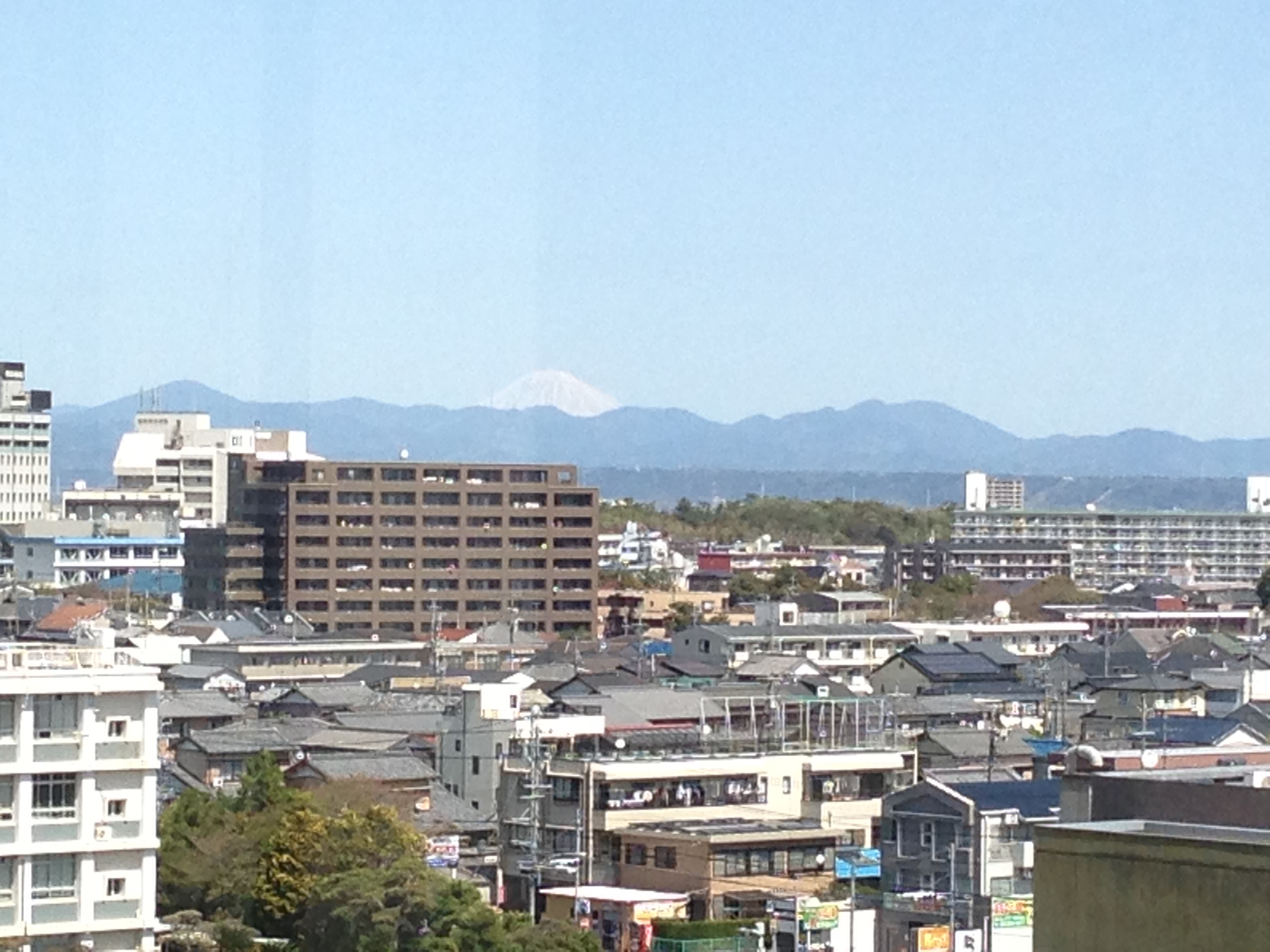 view of mt fuji from hamamatsu